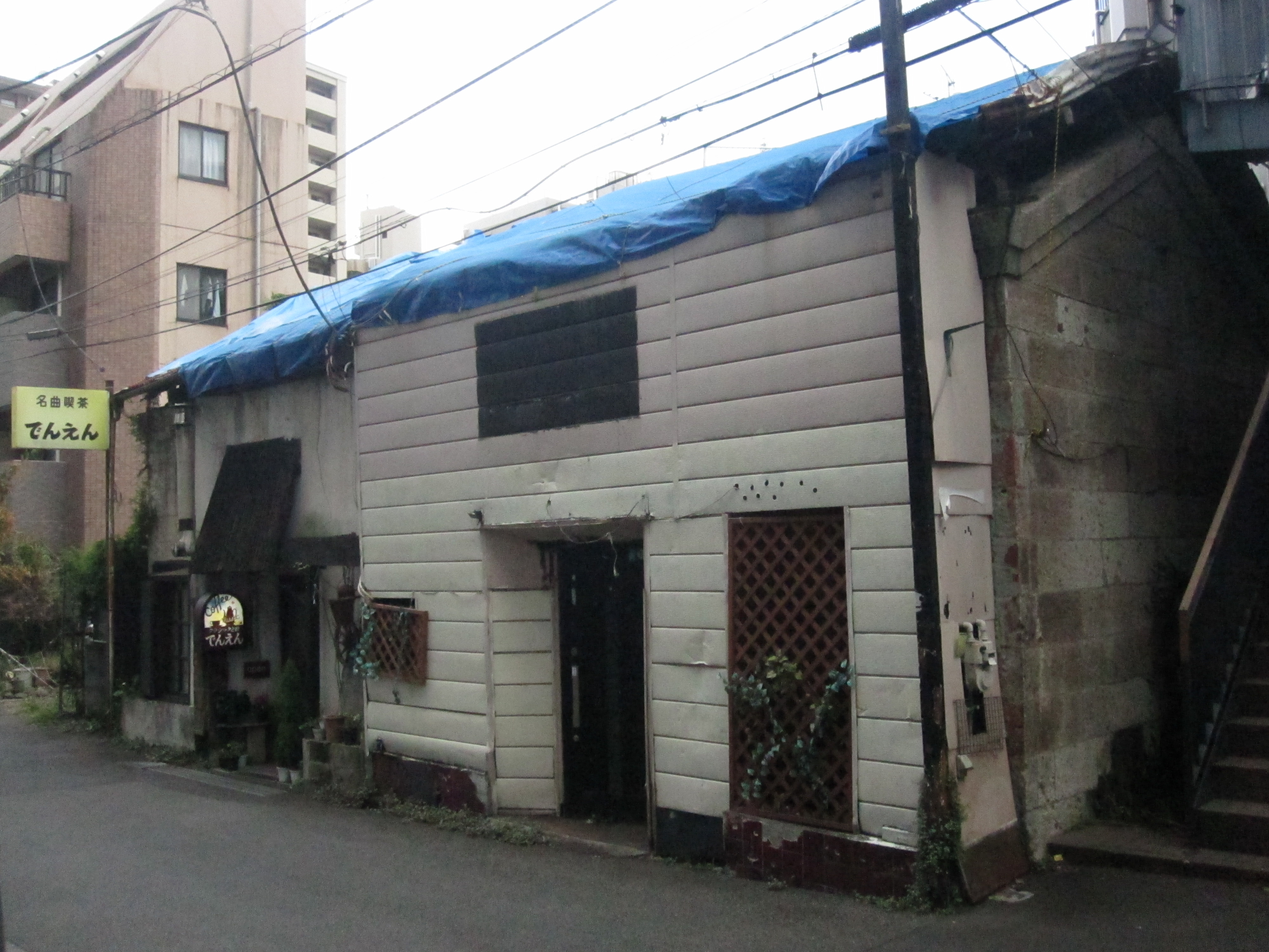 "Den'en", a meikyoku kissa (classical music cafe) in Kokubunji, Tokyo, Japan. The building is a former rice storage house built in 1924.